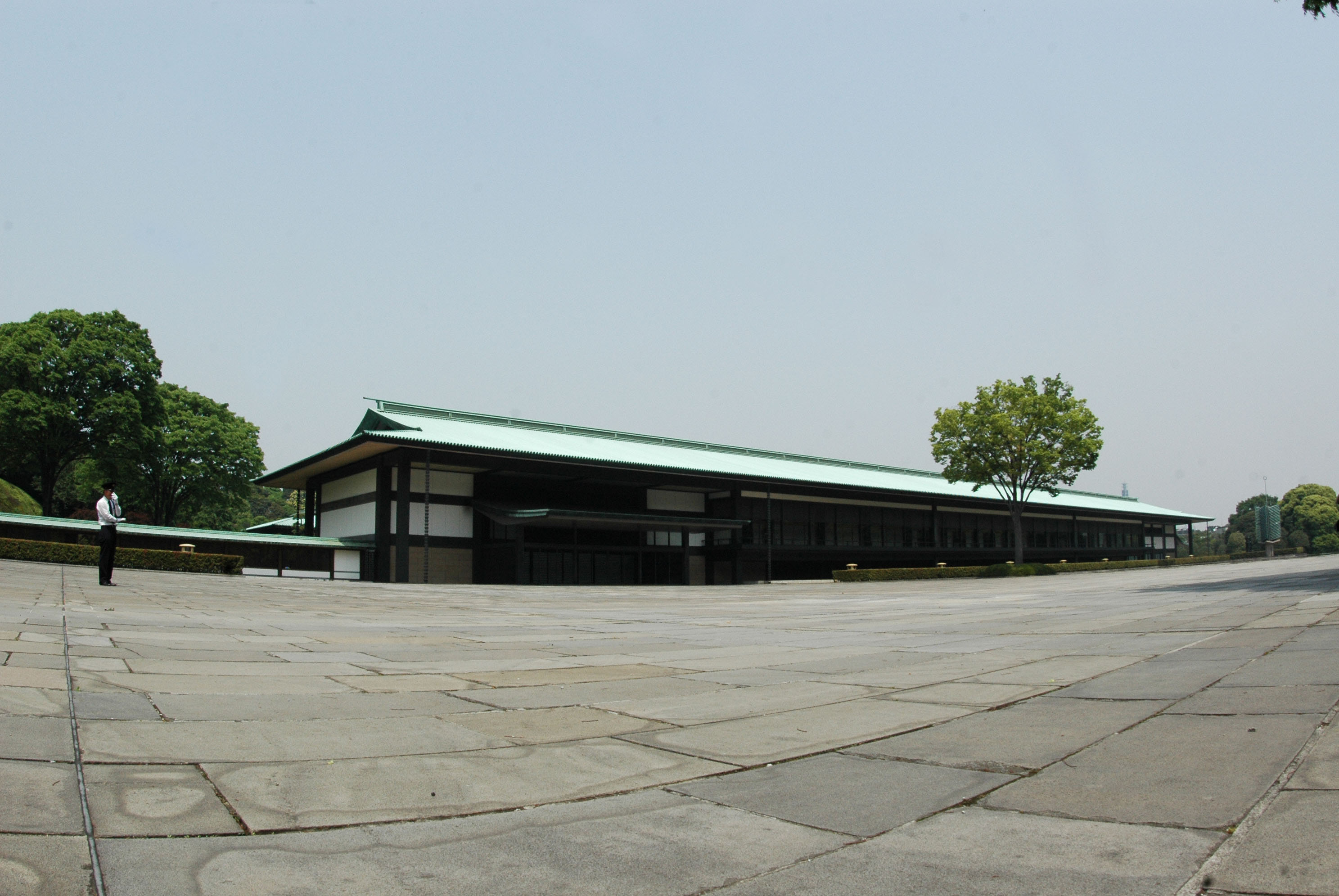 The Chōwaden Reception Hall, Imperial Palace, Tokyo photo D Ramey Logan.